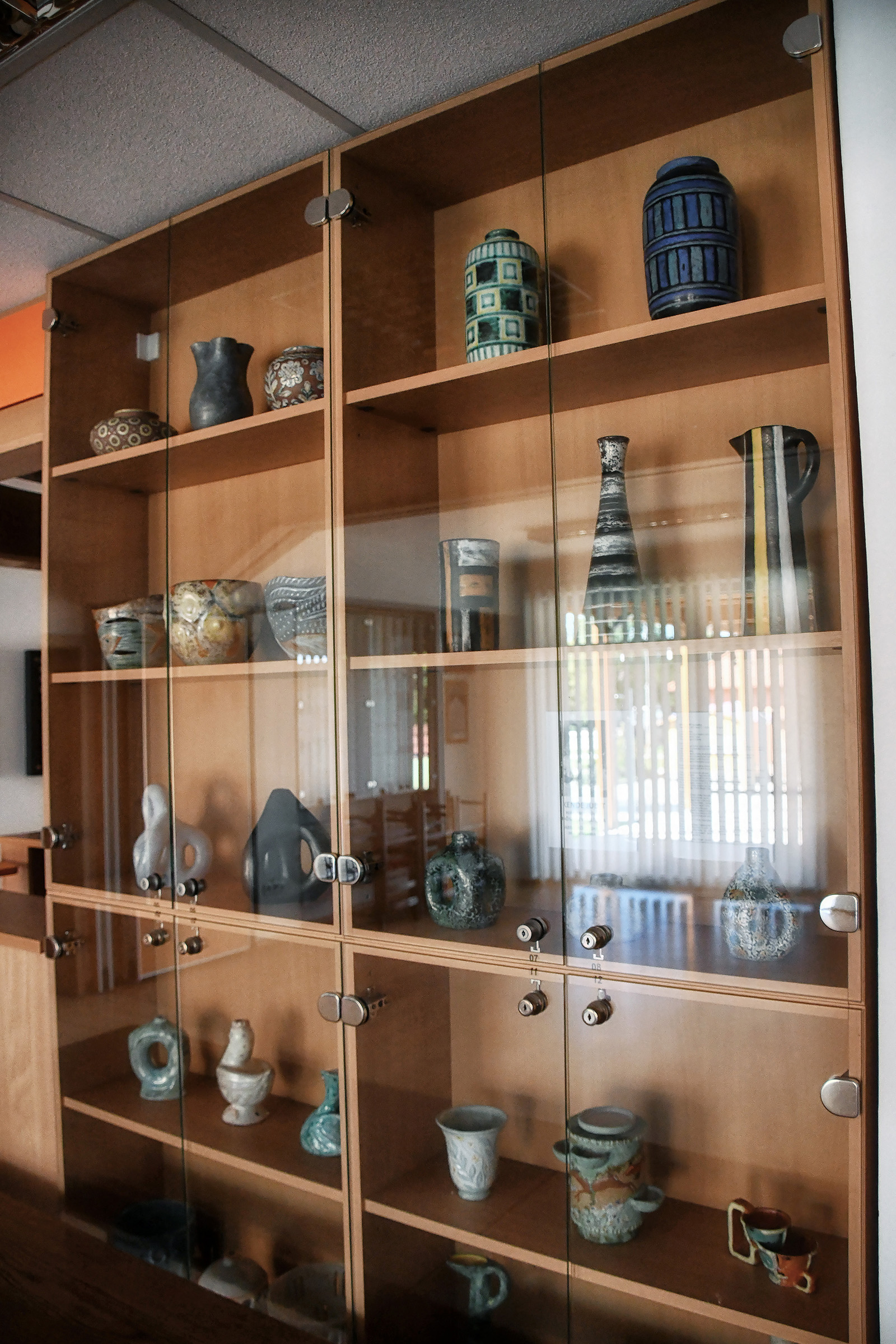 Historical exhibition in the village hall of Abda, Hungary, Judit Kende collection